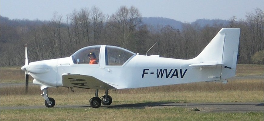 Midour ACBA-7 No. 5 prior to first flight; Registration: F-WVAV